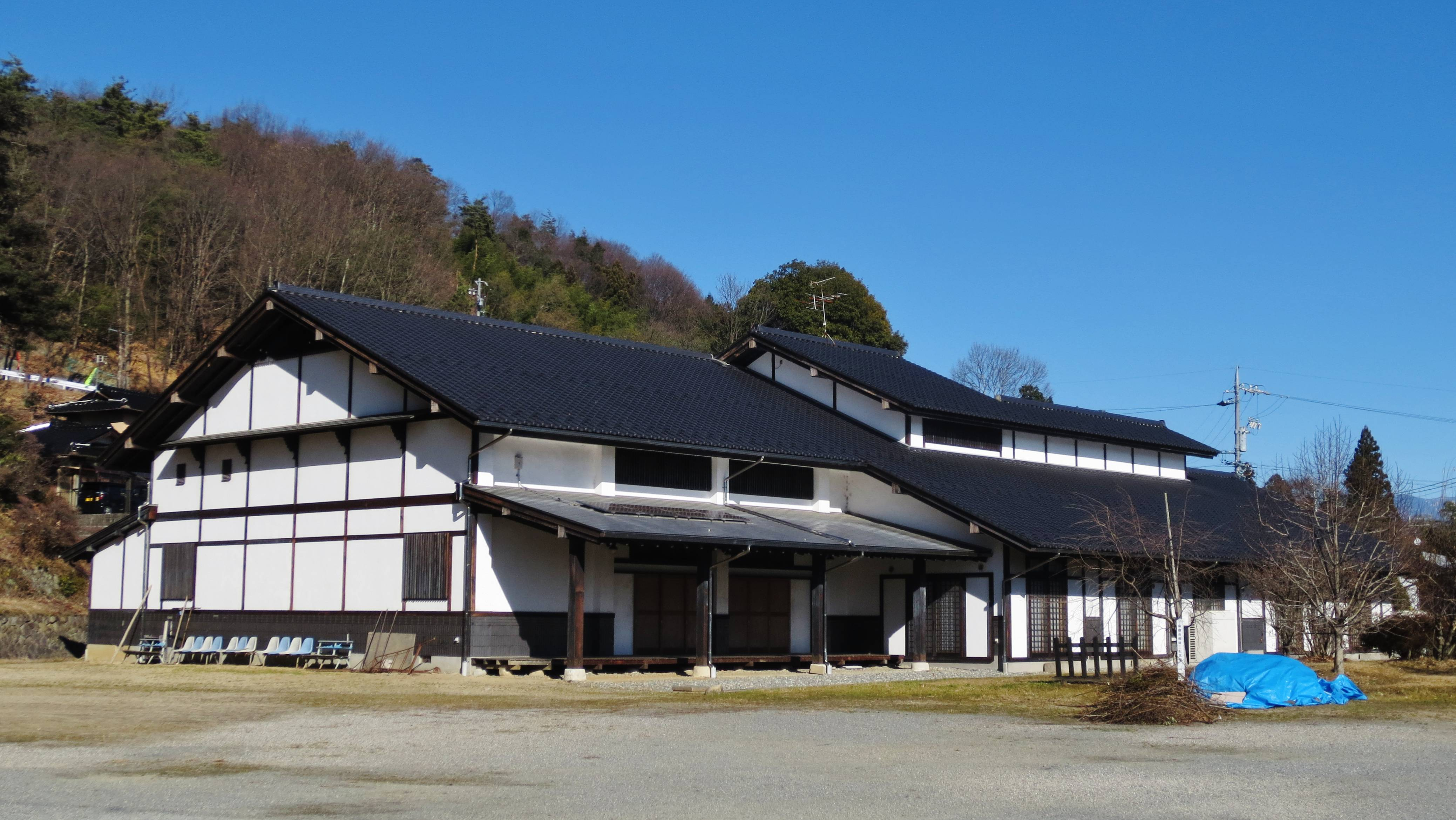 Omi no Yakata.